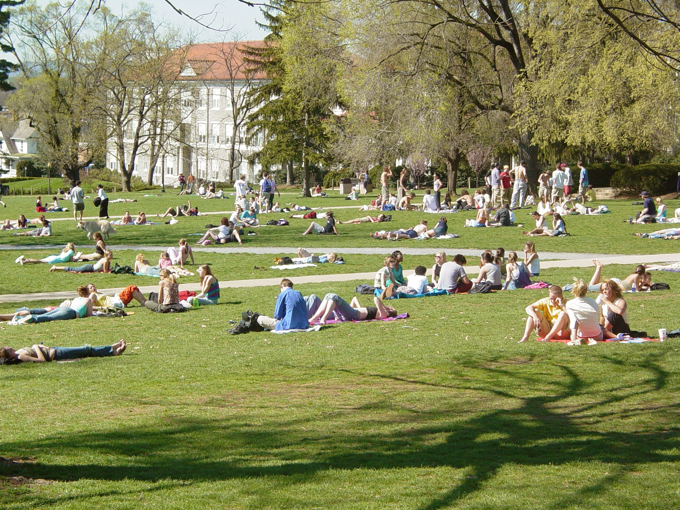 Students on the James Madison University quad. Photo taken by Ben Schumin on April 2, 2003.